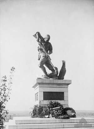 Sculpture by Charles Web Gilbert - the figure of an AIF soldier designed as a part of the Mont St. Quentin, France, AIF Memorial. AWM caption: Mont St Quentin, Peronne, France. c. 1925. The original Memorial to the men of the 2nd Australian Division, featuring an heroic bronze statue of an Australian soldier bayoneting a German eagle. A bronze plaque on the pedestal of the monument reads: 'To the officers, non-commissioned officers and men of the 2nd Australian Division who fought in France and Belgium in the Great War 1916, 1917, 1918.' Several wreaths have been laid at the base of the memorial, including one from Le Conseil Municipal and another with a ribbon that reads: 'To our comrades of the Second Australian Division from the British Army.' The statue on top of the memorial and the bas reliefs on its sides, which were sculpted respectively by Lieutenant Web Gilbert and May Butler-George, were removed by the occupying German Army in 1940. They were later replaced with a new statue and new reliefs.